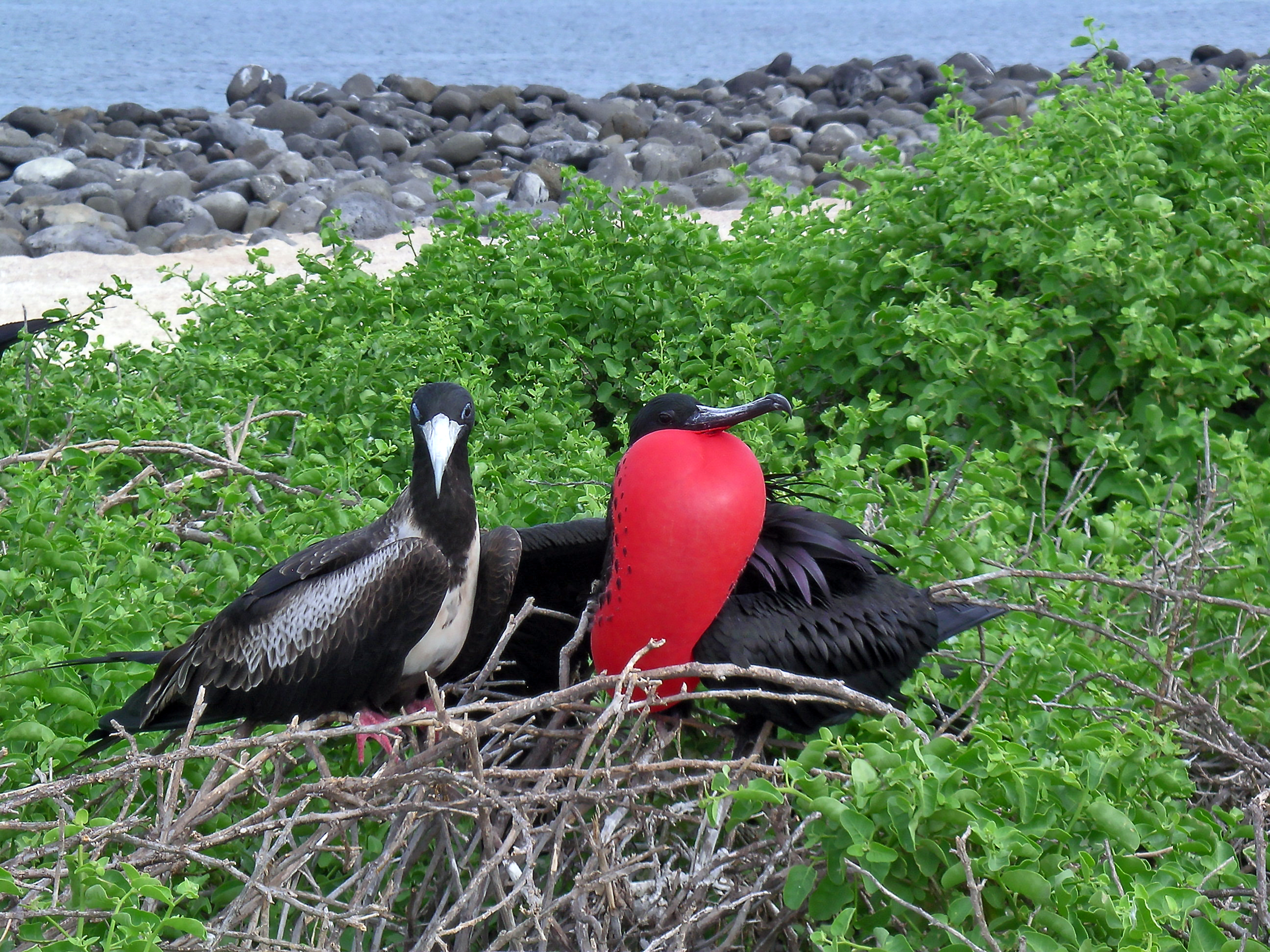 A male and a female Magnificent Frigatebird (Fregata magnificens) during the mating season, North Seymour Island, Galapagos